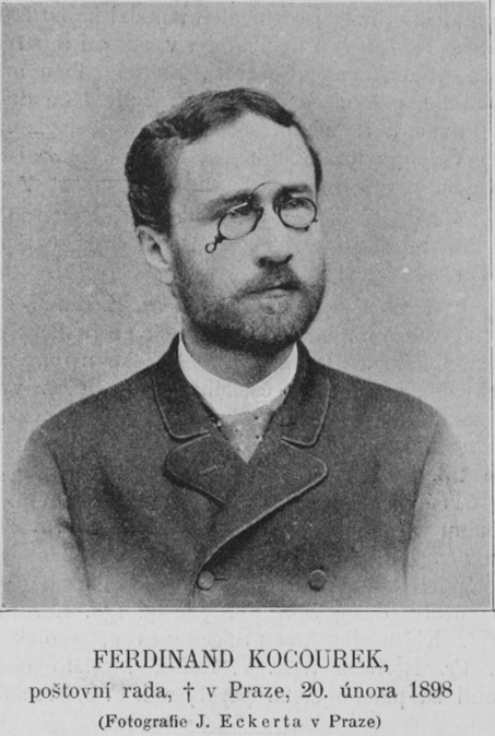 Portrait of Ferdinand Kocourek (1849-1898), senior Czech postal official, author of Czech postal terminology